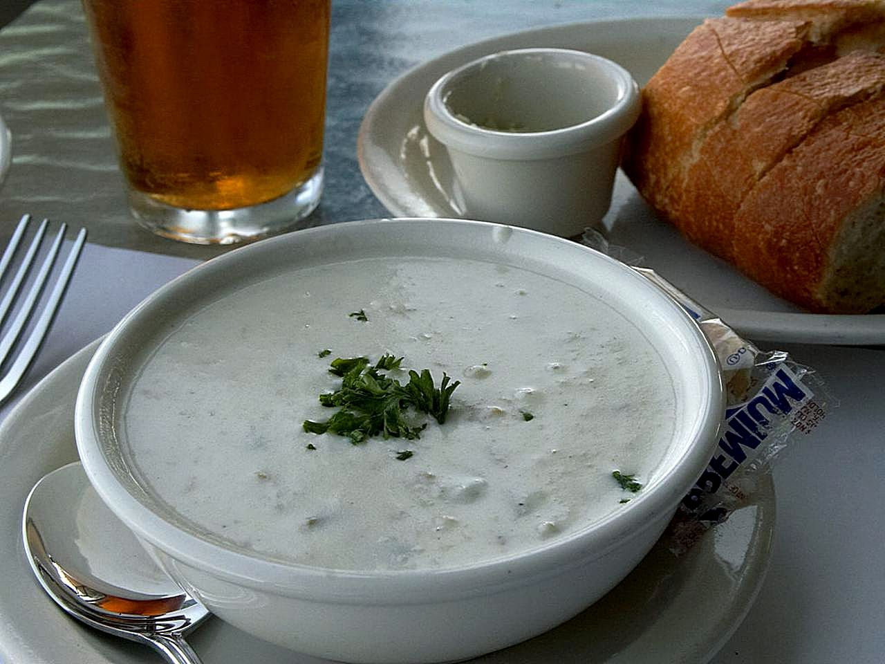 Image title: Clam chowder with beer and sour dough bread Image from Public domain images website